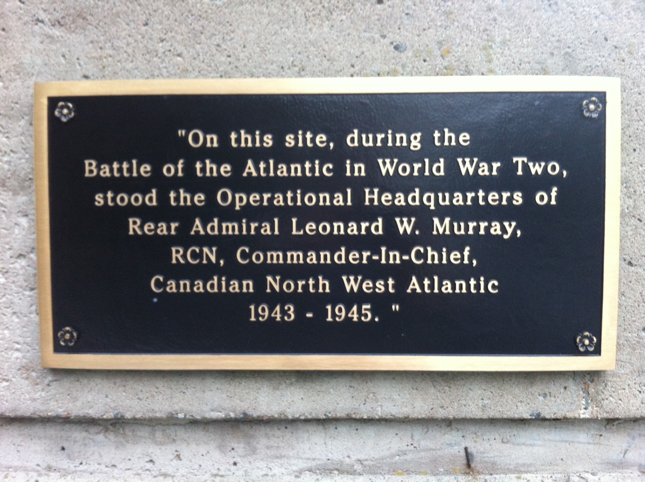 Leonard Murray Plaque Halifax Nova Scotia - on the corner of South St. and Barrington St